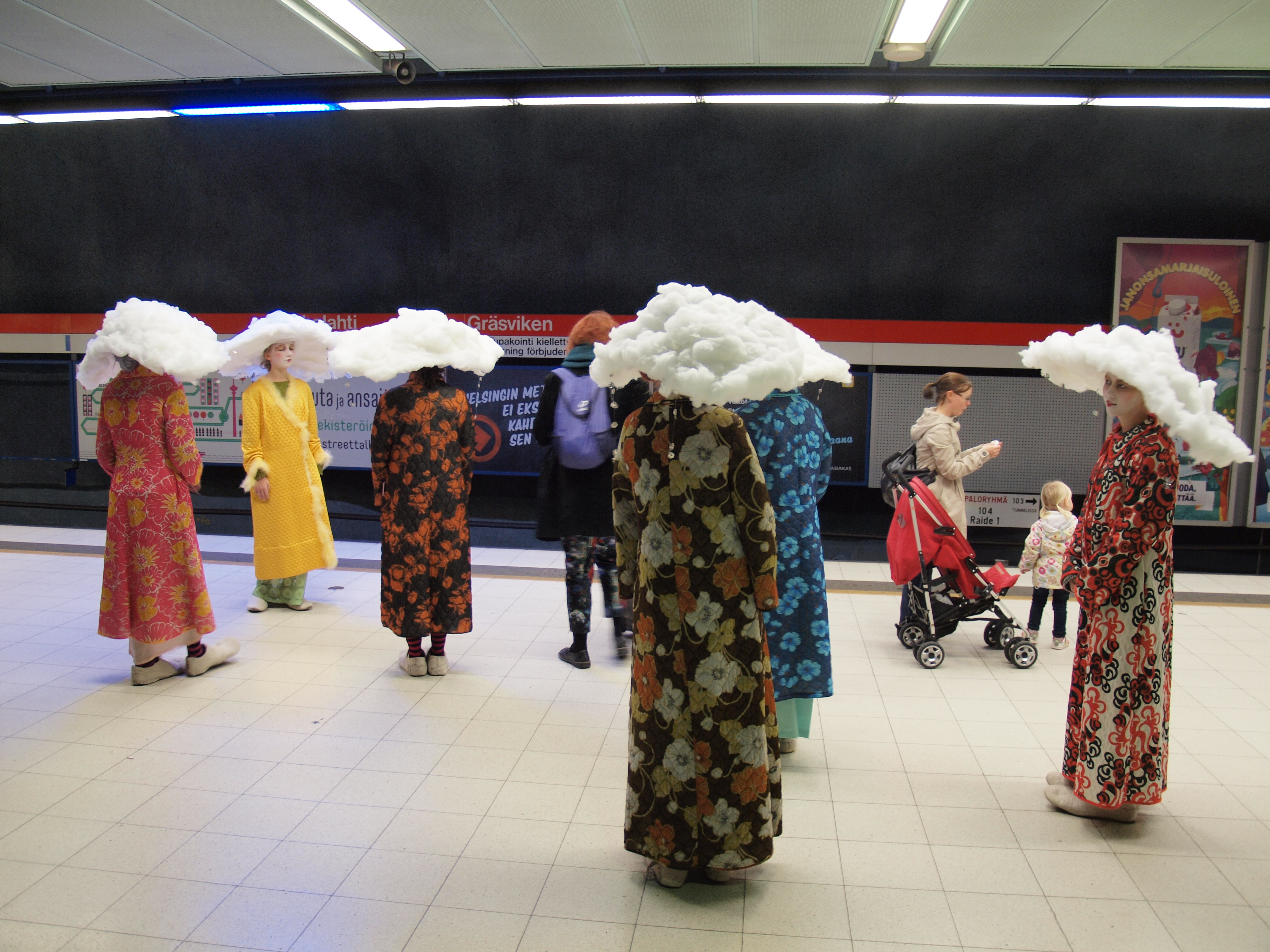 A group of women in Asian-style costumes and large white hats at Ruoholahti metro station in Ruoholahti, Helsinki, Uusimaa, Finland. They were probably advertising some kind of new performing arts event.